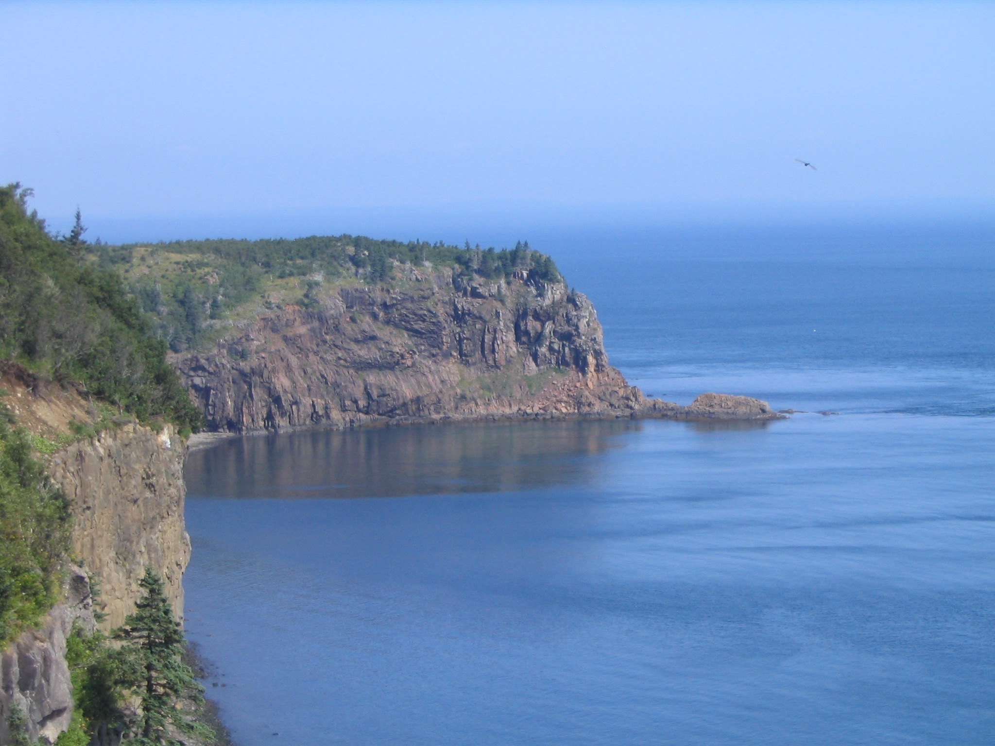 viewed from the 7 Days Work